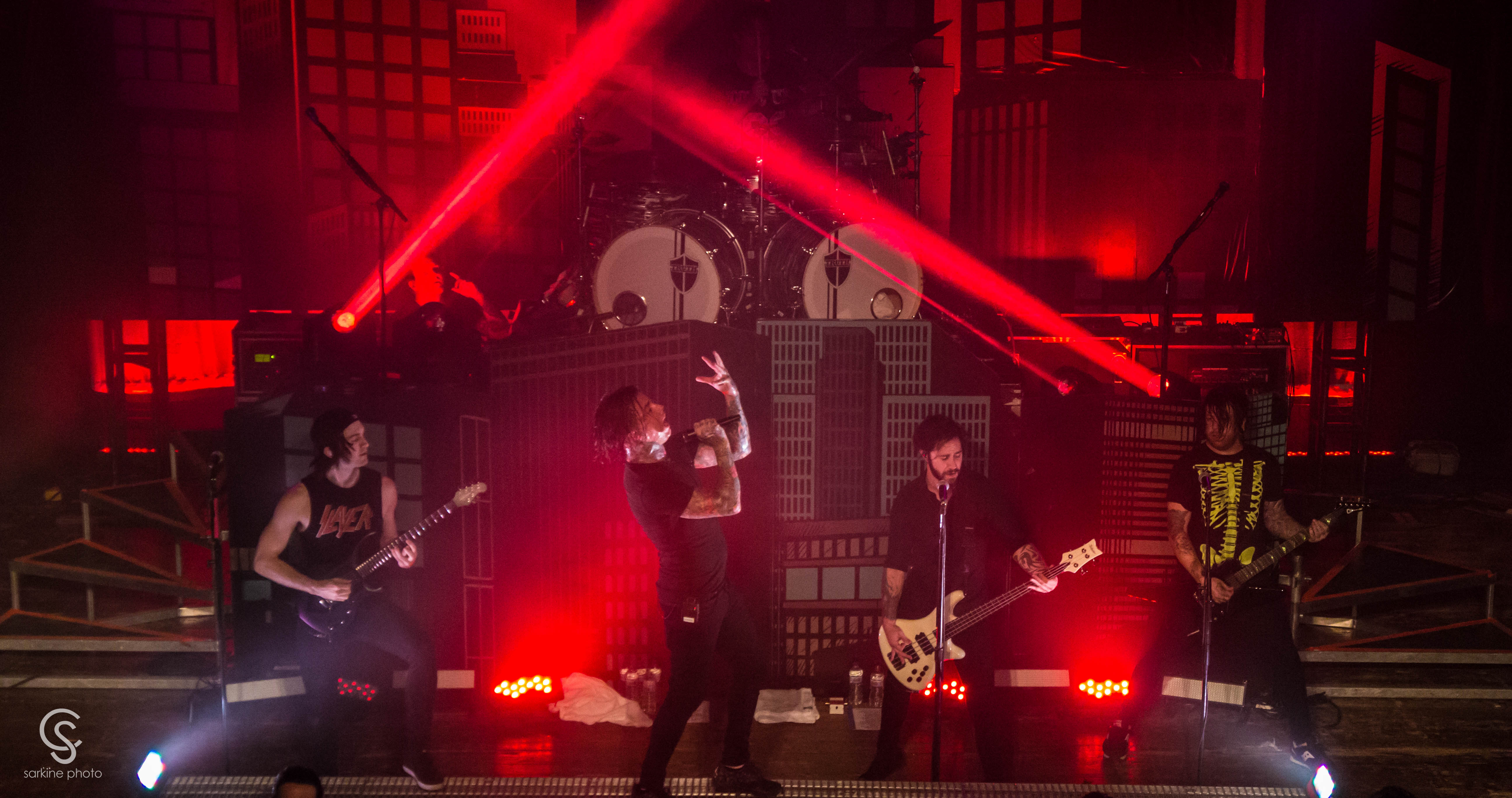 Falling in Reverse at the House of Blues, Chicago. 2015